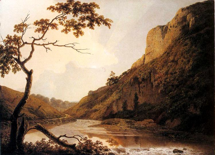 Matlock Tor by Daylight.